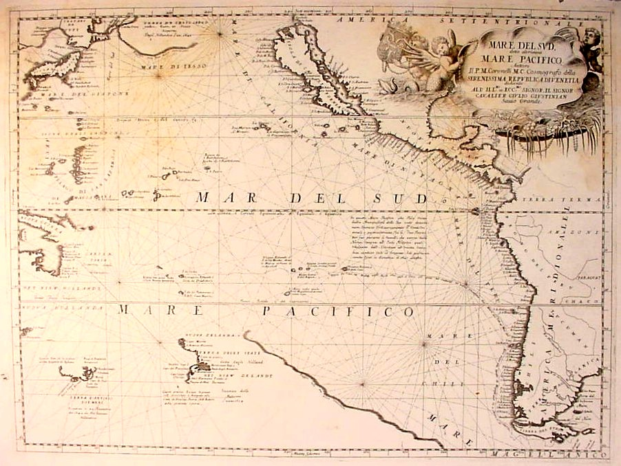 Map of Pacific Ocean — "Mare Del Sud, detto altrimenti Mare Pacifico." By Vincenzo Coronelli. From Atlante Veneto. Venice, 1690. Engraving. 17 3/4 x 23 7/8.